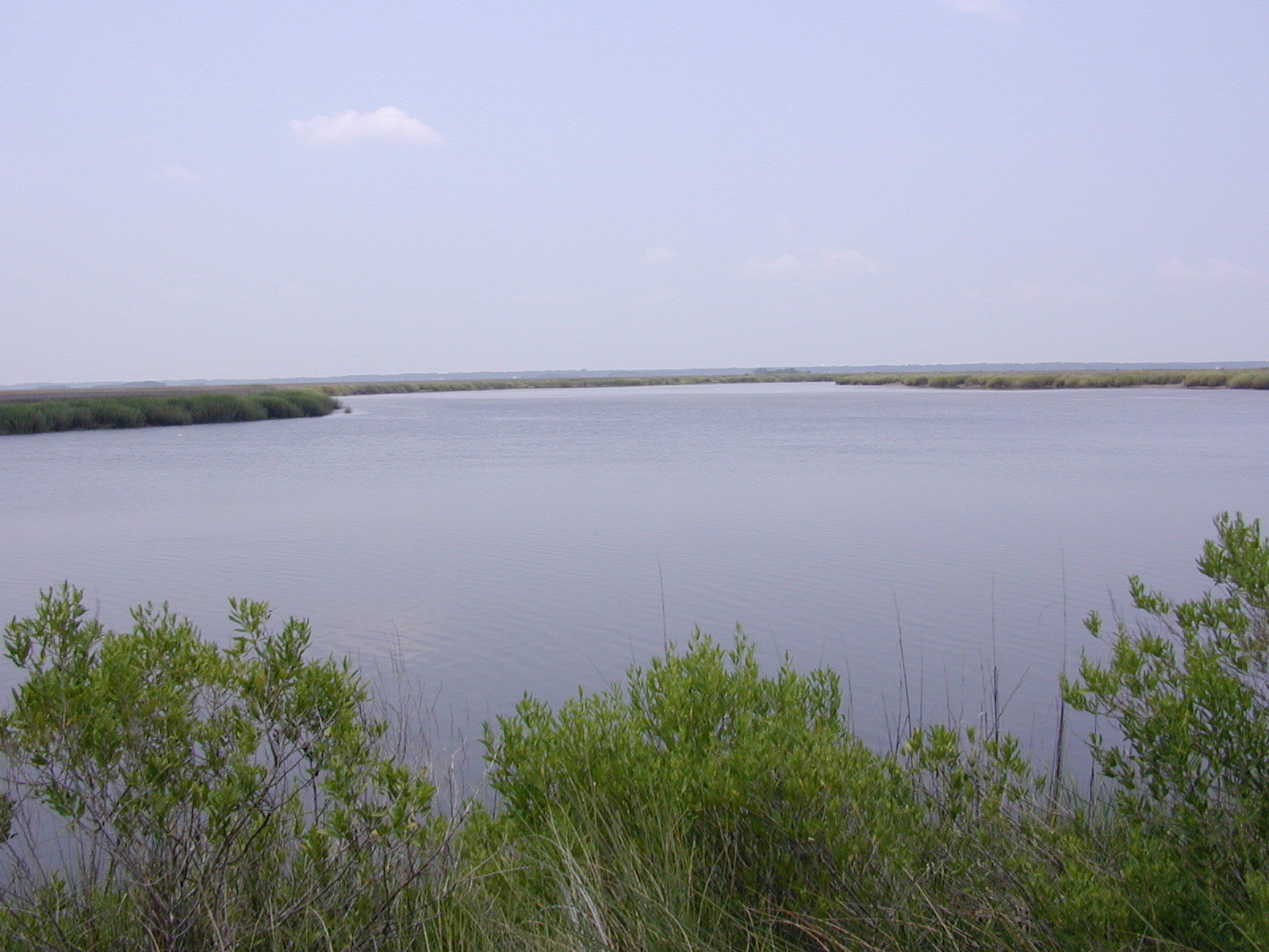 Mackay River as seen from Foprt Fredrica National Monument, St. Simons Island, Gerogia